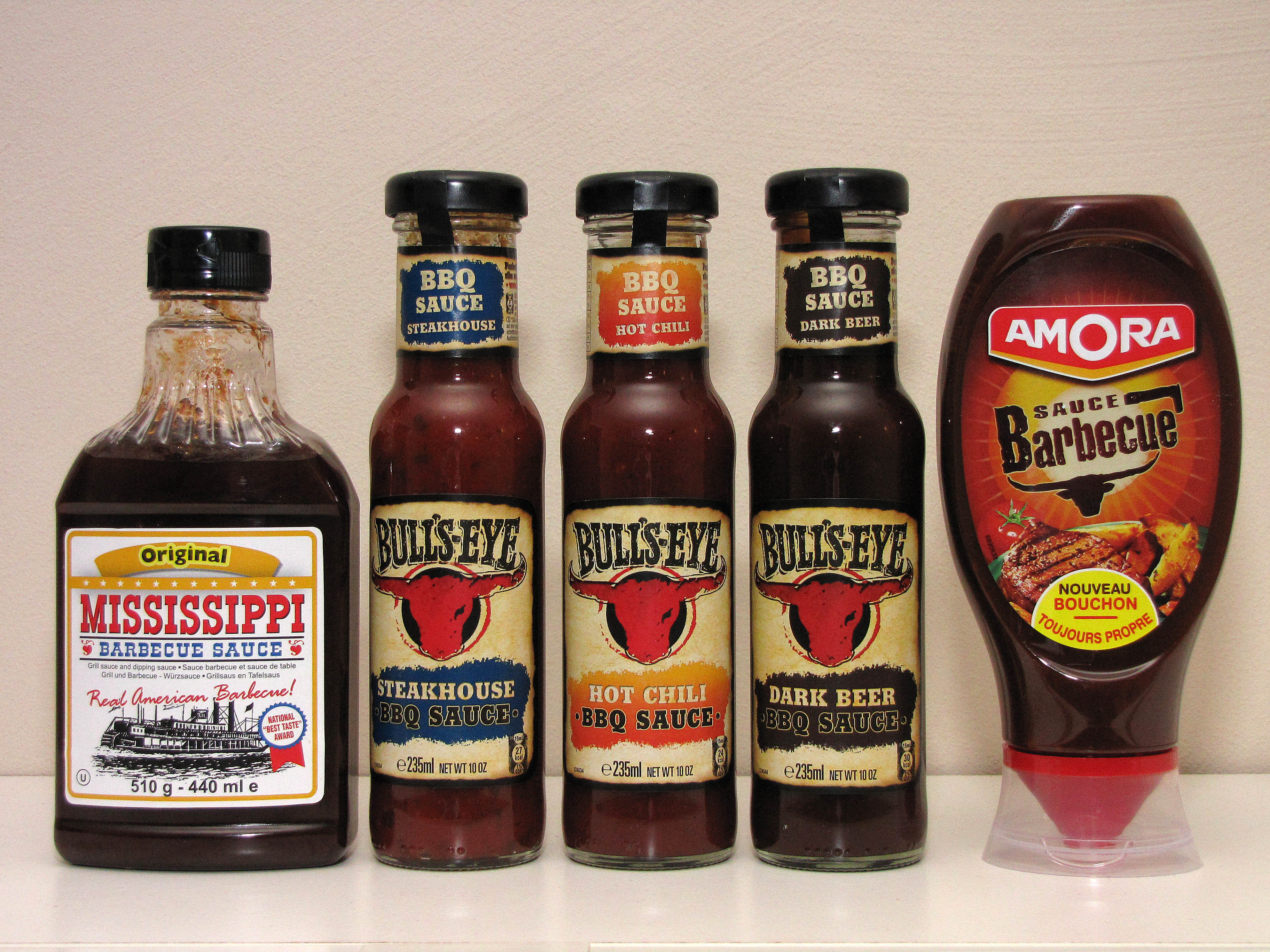 Bottles of Barbecuesauce